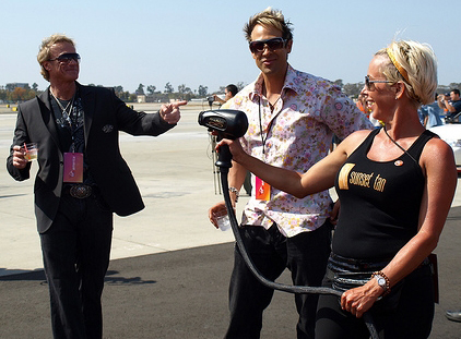 Devin Haman and Jeff Bozz at the Virgin America OC Launch.